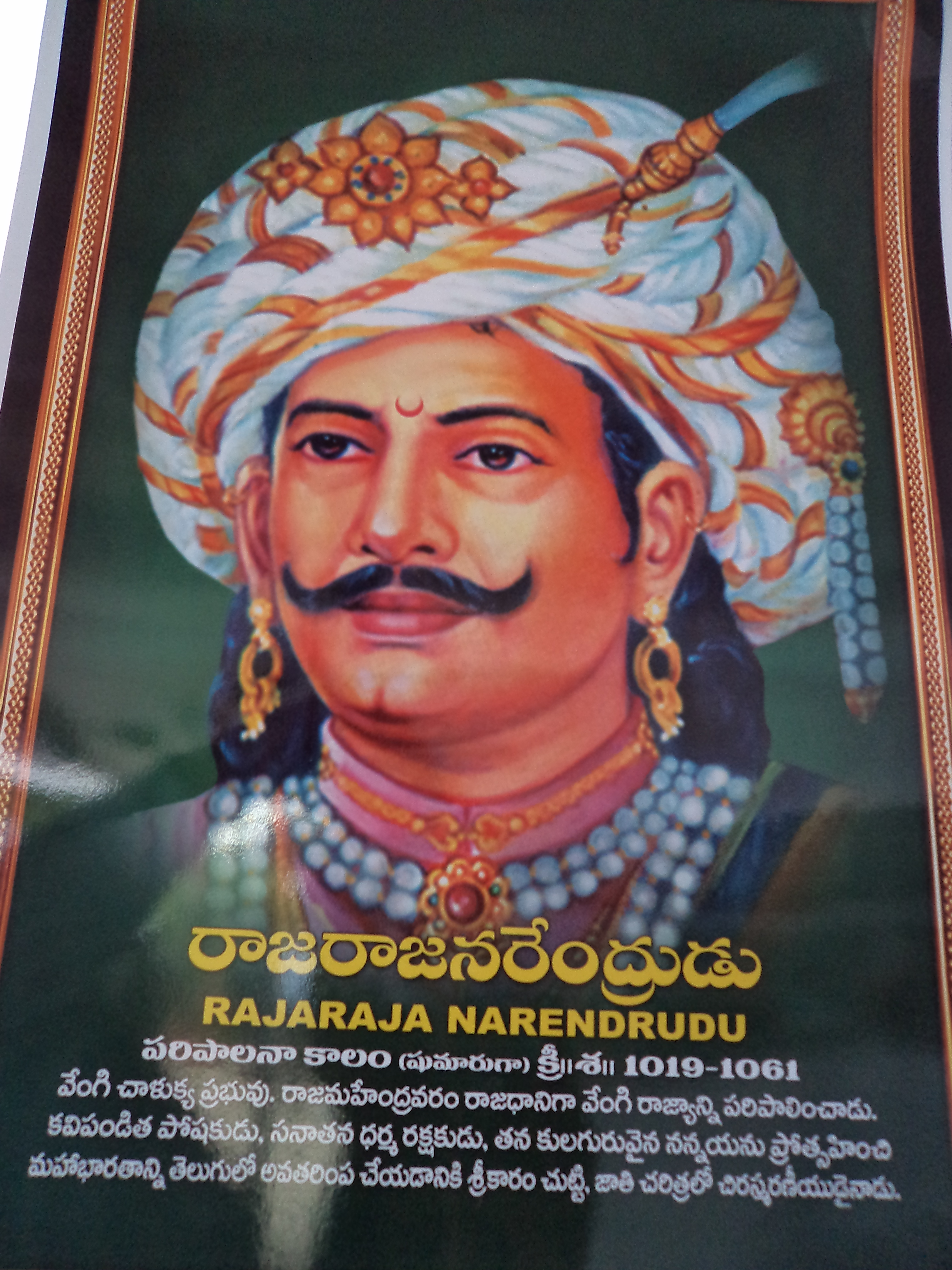 Portrait of Rajaraja Narendrudu